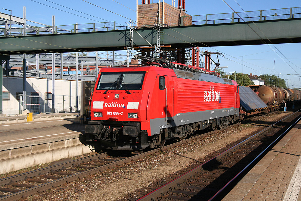 A DB class 189 locomotive at the main railway station of Ingolstadt